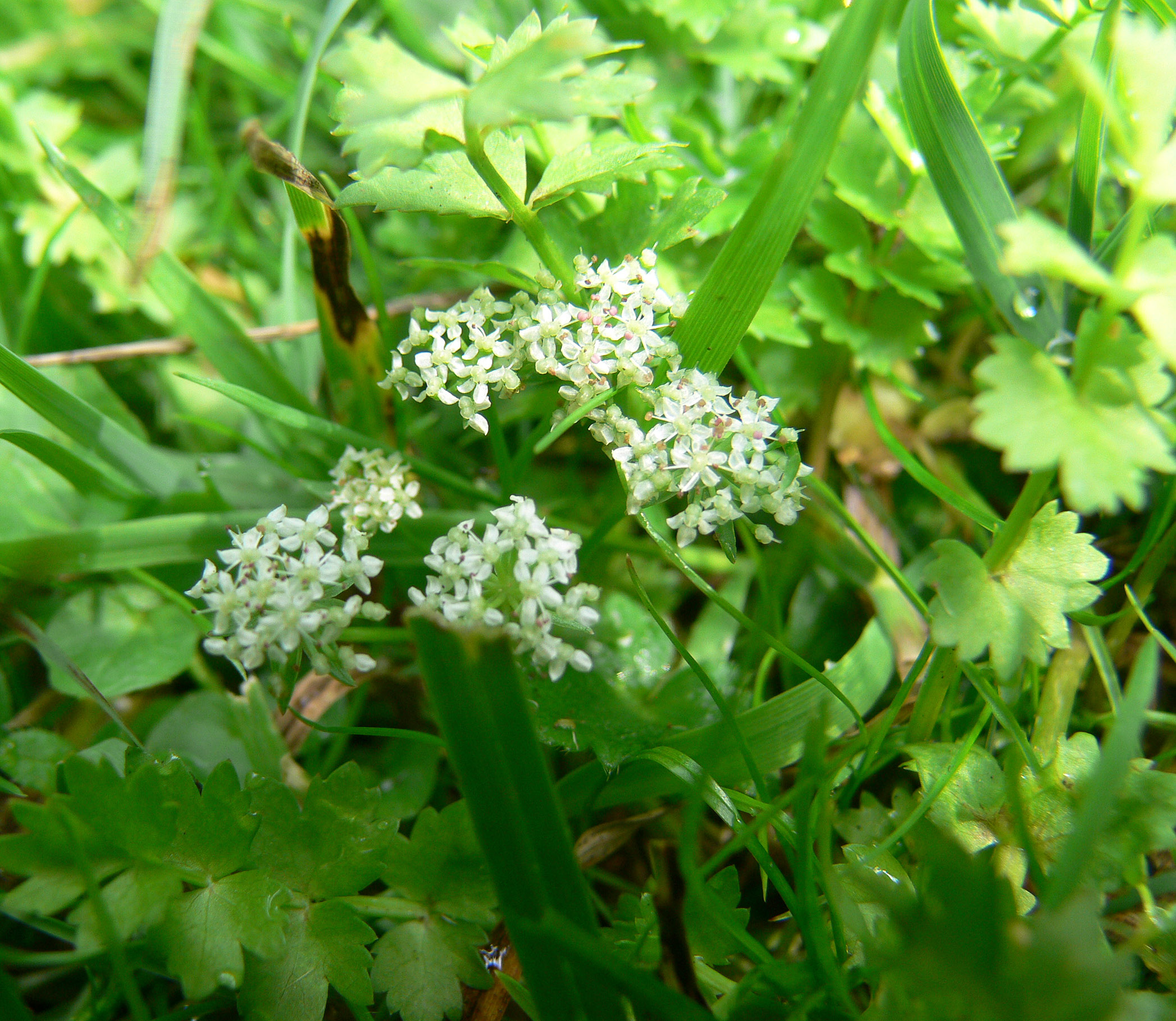 Apium repens, Nord/Pas-de-Calais, France